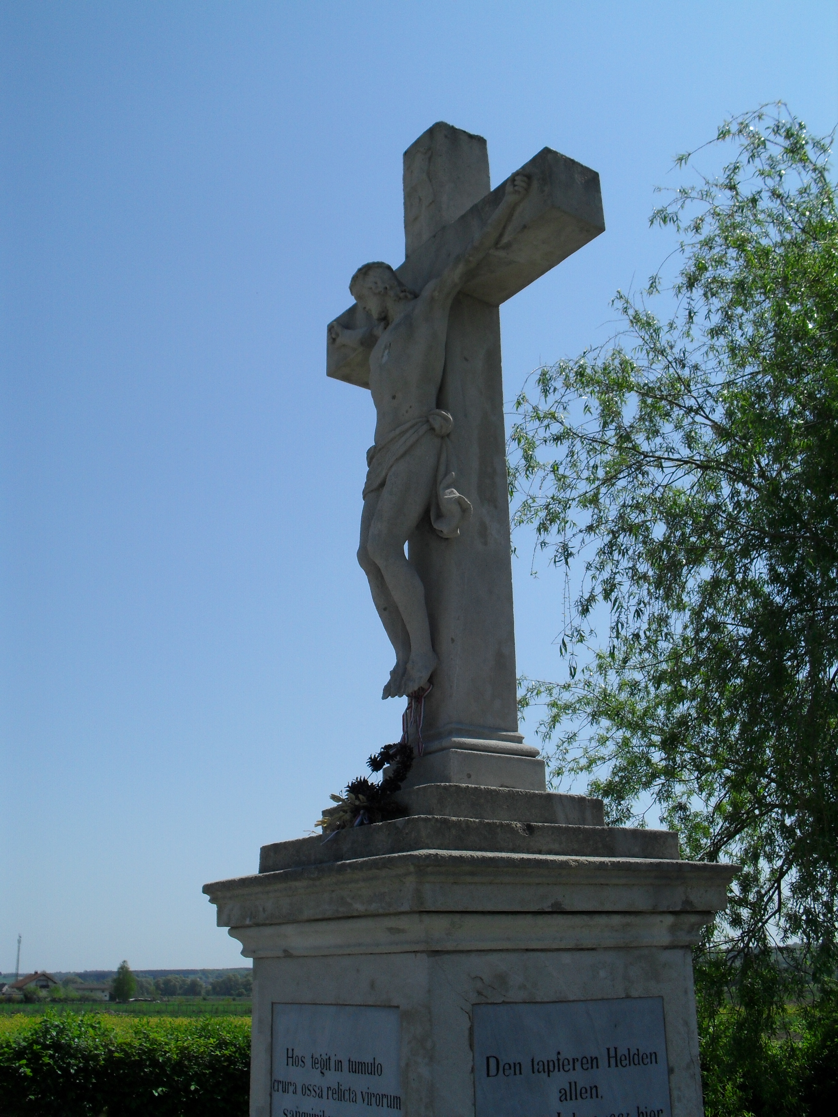 The White Cross in Mogersdorf of Dániel Küzmits prior of Saint Gotthard from 1840 (monument of the Battle of Saint Gotthard)